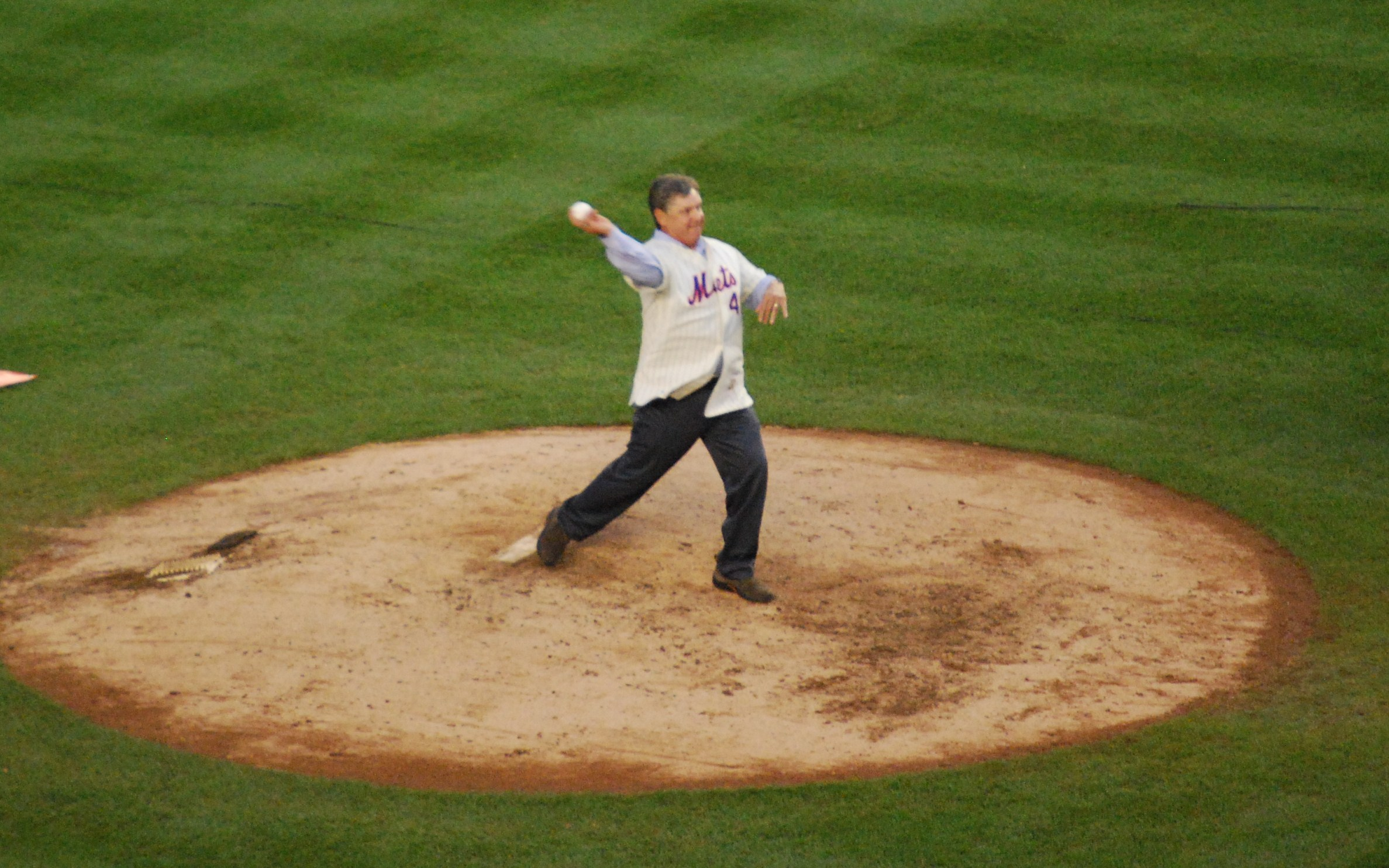 Tom Seaver